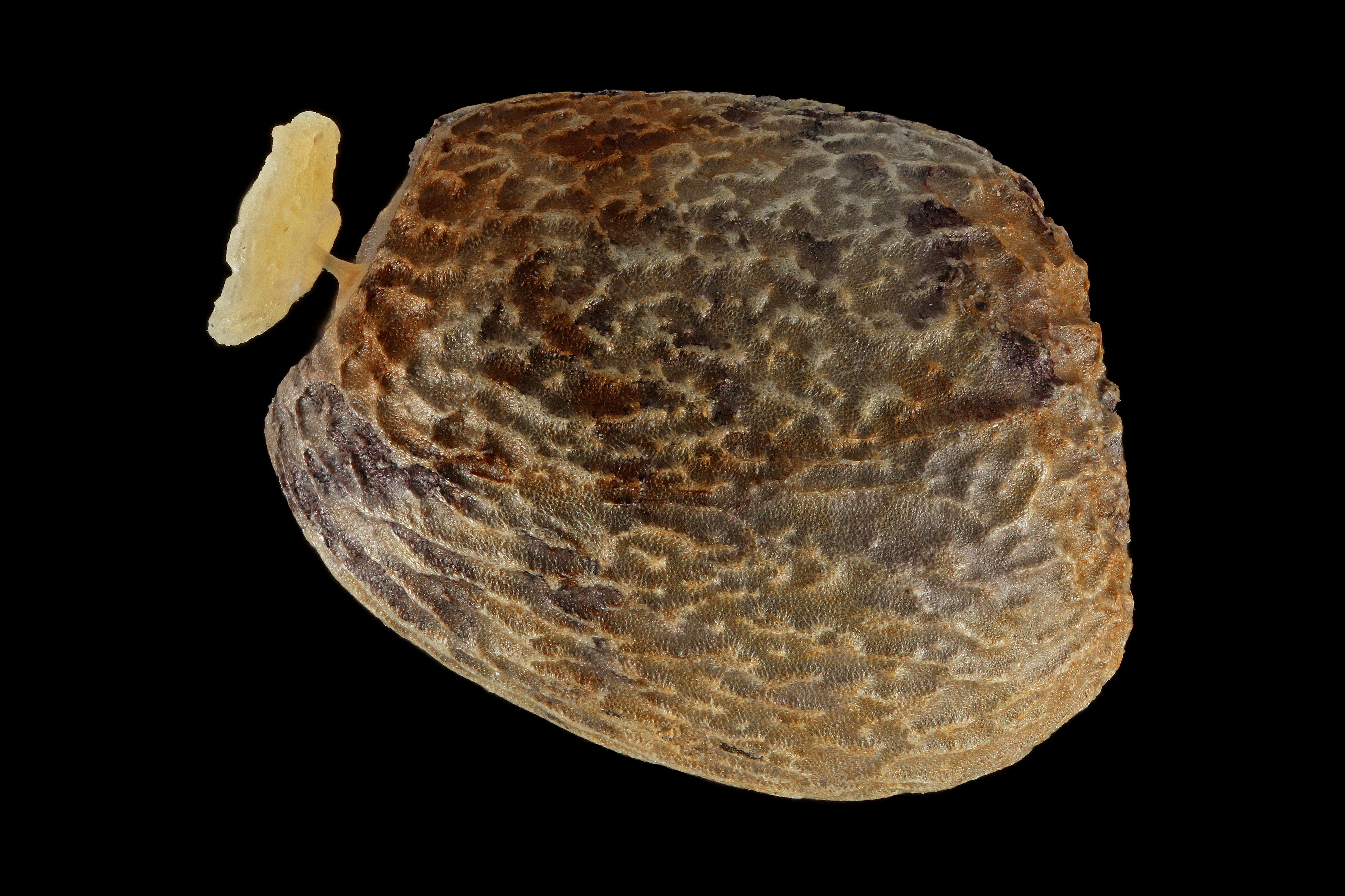 Seed of Euphorbia lathyris (Caper spurge; Euphorbiaceae) with a white or yellowish appendage called an elaiosome. This fat body attracts ants, which carry the seed to their nest. Seed dispersal by ants is known as myrmecochory.